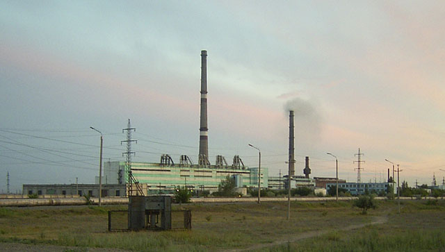 Combined heat and power (CHP) station of Ekibastus in Kazakhstan.